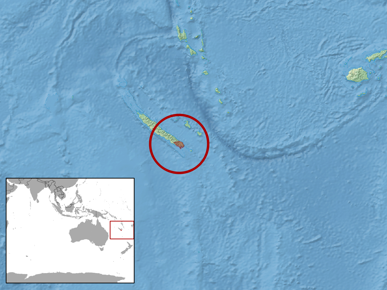 geographic distribution of Graciliscincus shonae